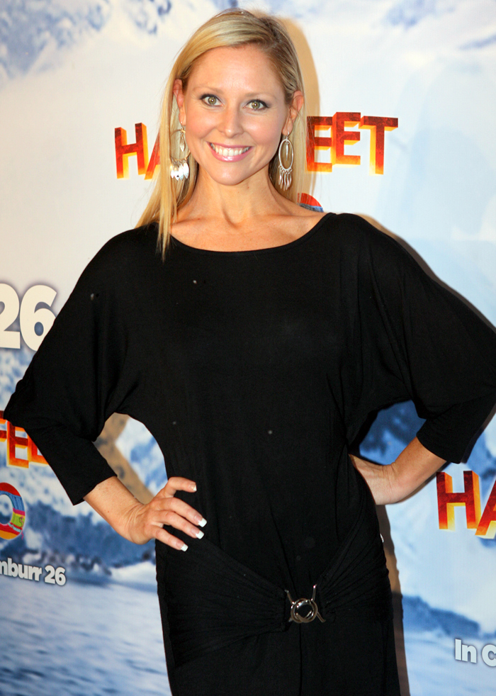 Charli Robinson at the Australian Premiere of Happy Feet Two in Sydney (release date December 15, 2011)